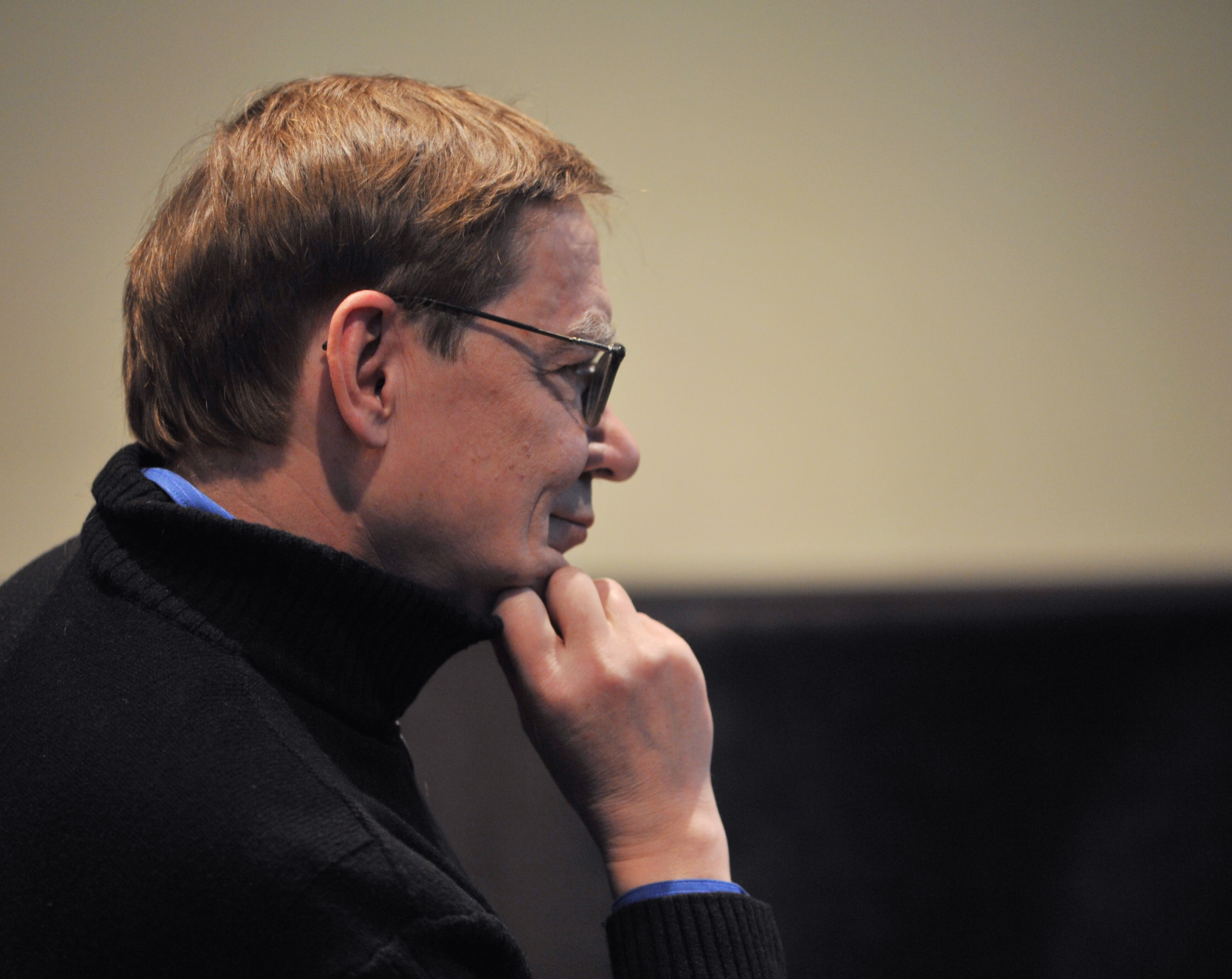 Kalevi Aho, Finnish composer, Helsinki, April 2010.